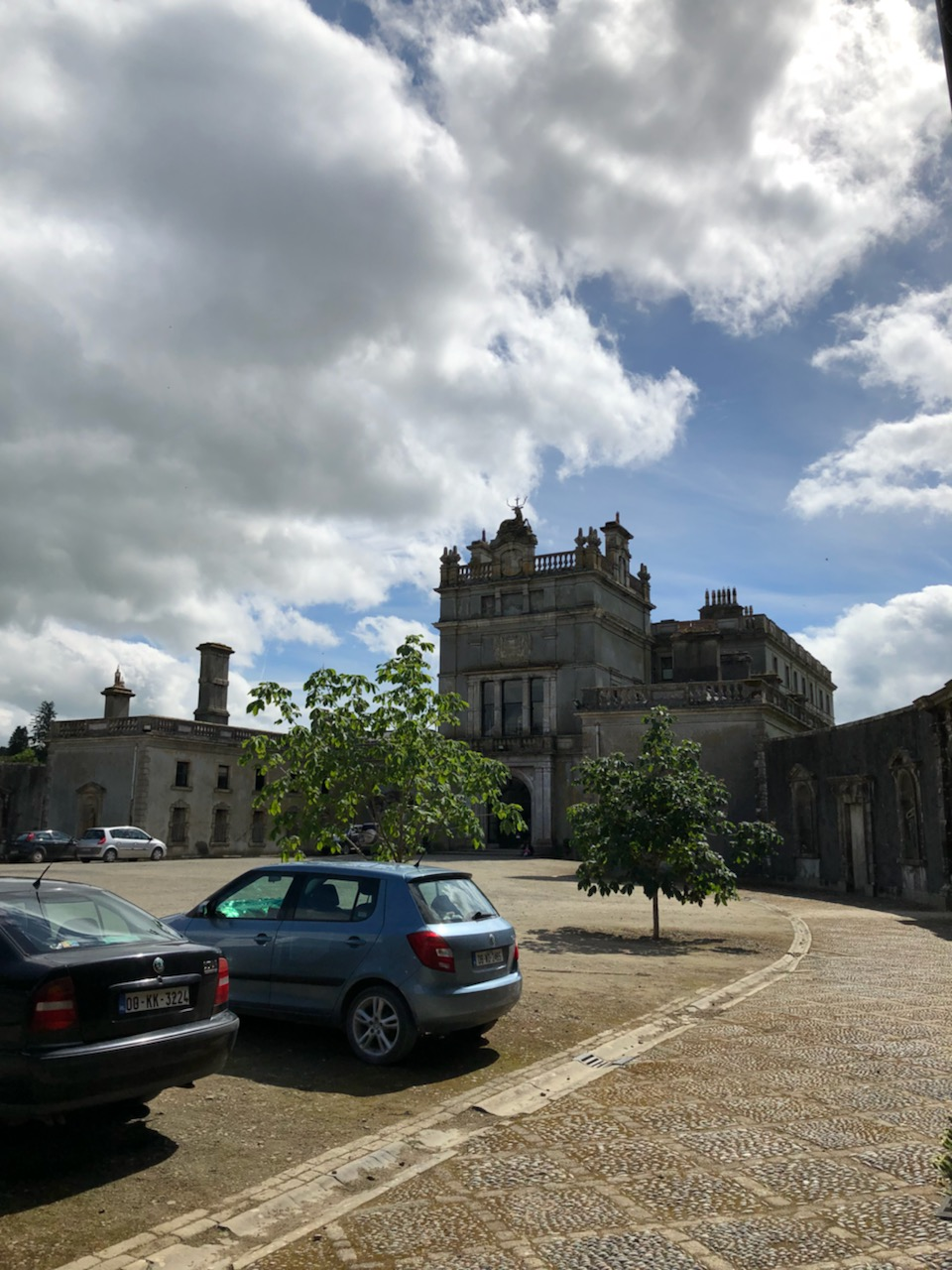 Curraghmore main house June 2018, taken with an iPhone.